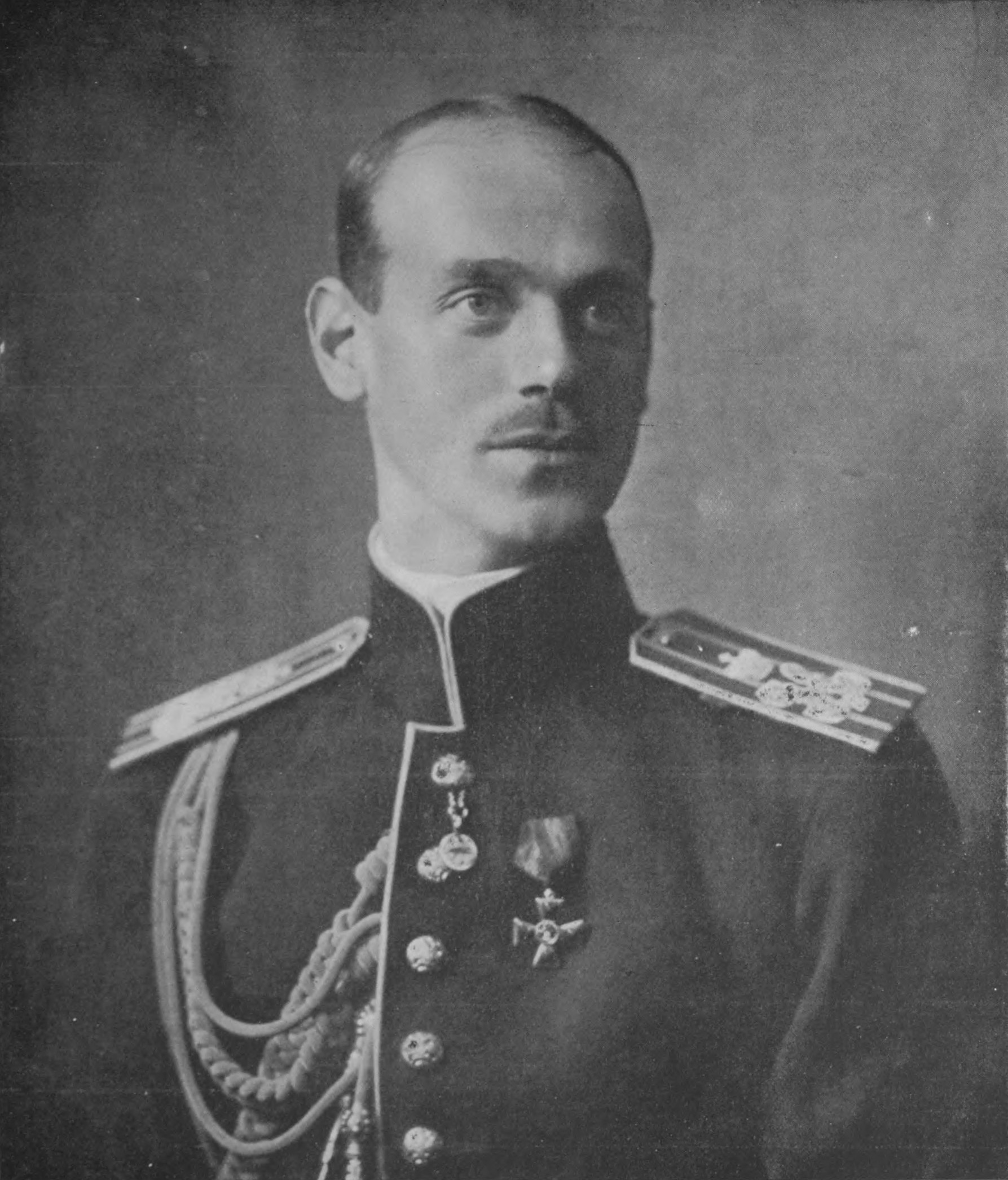 Russian Grand Duke Mikhail Alexandrovich, the last tsar's younger brother.